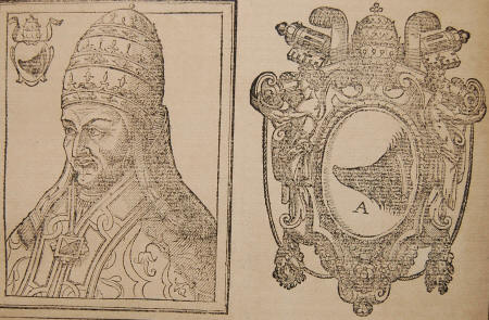 Pope Alexander II. and his coat of arms